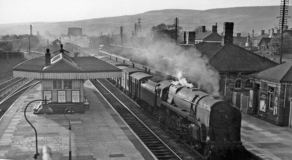 Llantrisant Station, with Up fast freight passing. View NW, towards Bridgend and Swansea on ex-Great Western South Wales main line, also Pontypridd to right, Cowbridge to left. The station was closed 2/11/64 but reopened 28/9/92 as Pontyclun. Passenger services to Cowbridge ceased 26/11/51, to Pontypridd 30/3/52, to Penygraig 9/6/58, but goods (colliery) traffic continued much longer - until various dates up to 1989. The Train, a Class C freight, is headed by BR Standard 9F 2-10-0 No. 92237